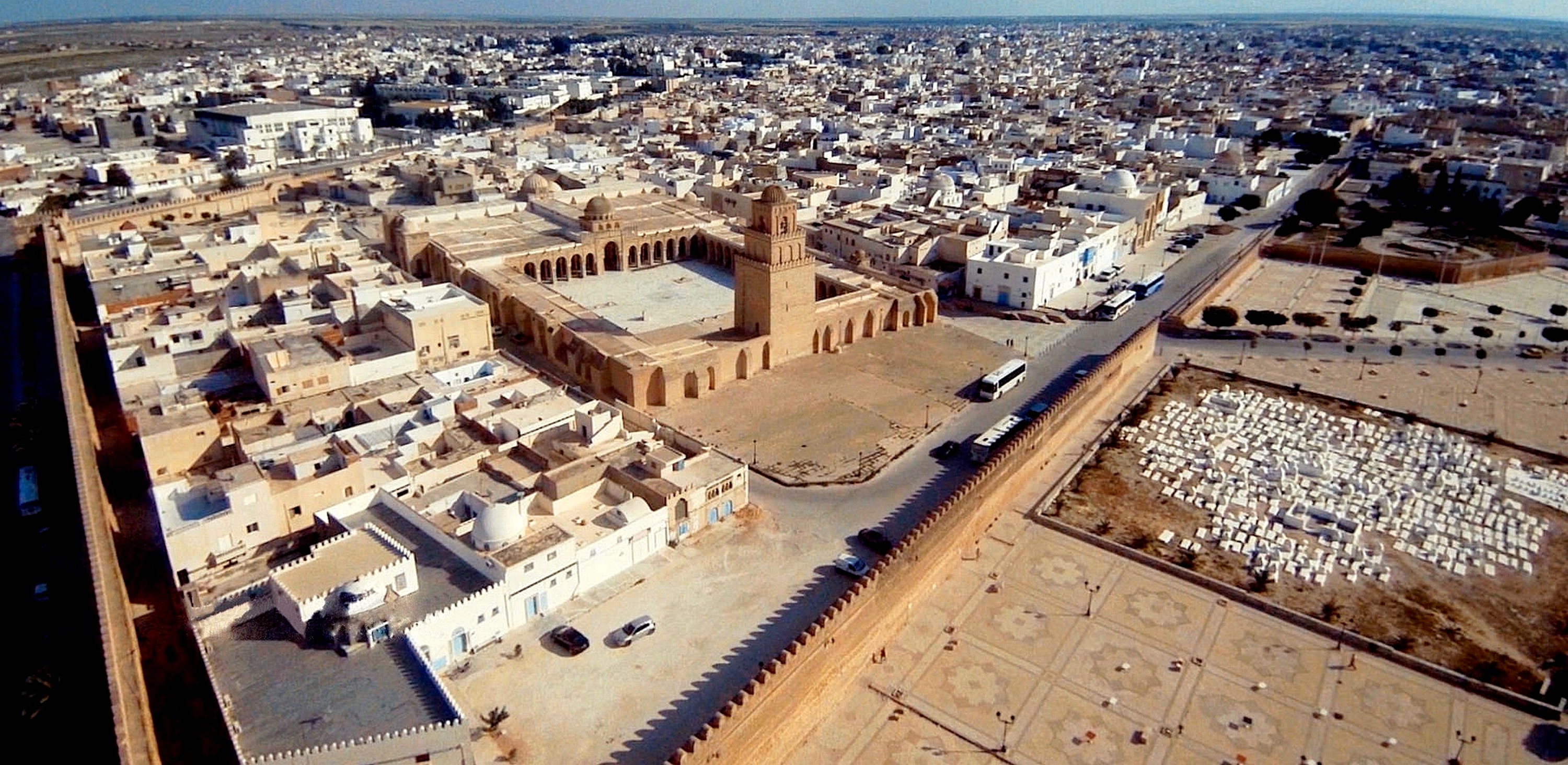 Rare arial view of Kairouan Great Mosque or Mosque of Uqba, in Tunisia.